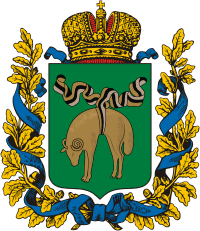 Coat of arms of Kutais Governorate, Russian Empire